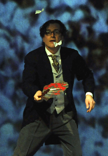 David Ben performs in Natural Magick 2011 as part of the Luminato Festival in Toronto.